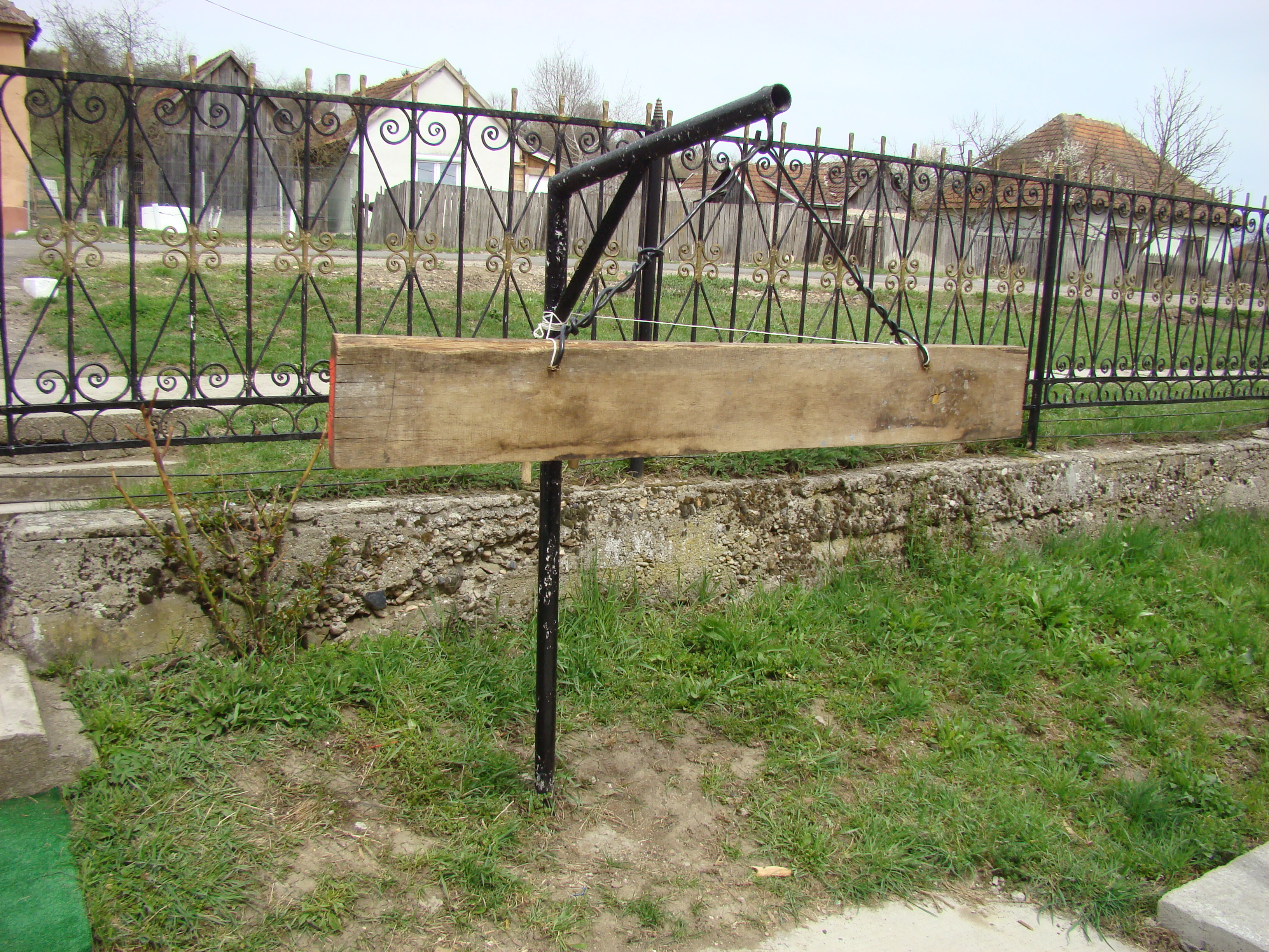 Zăbalț, Arad county, Romania